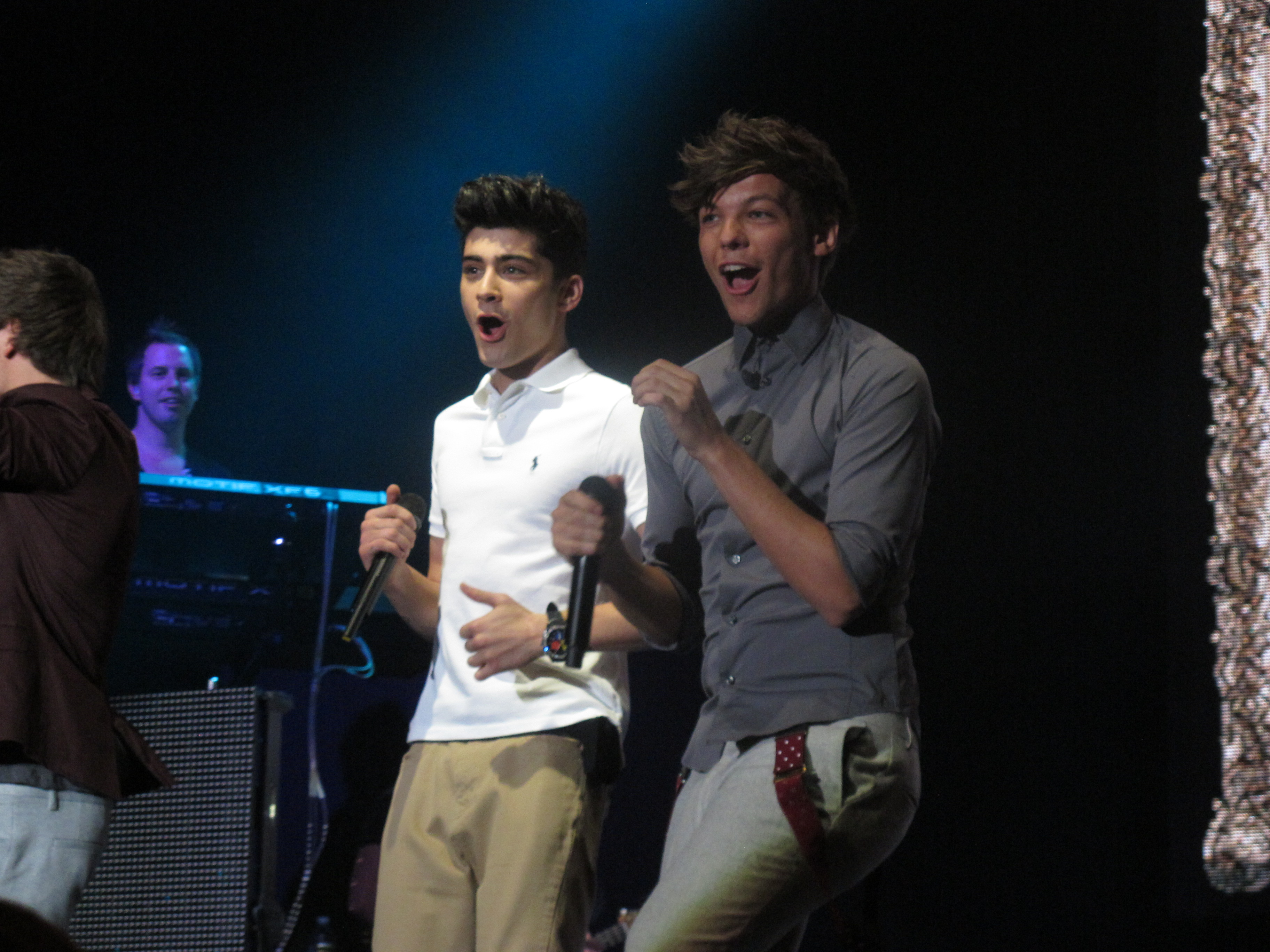 One Direction's Zayn Malik and Louis Tomlinson.